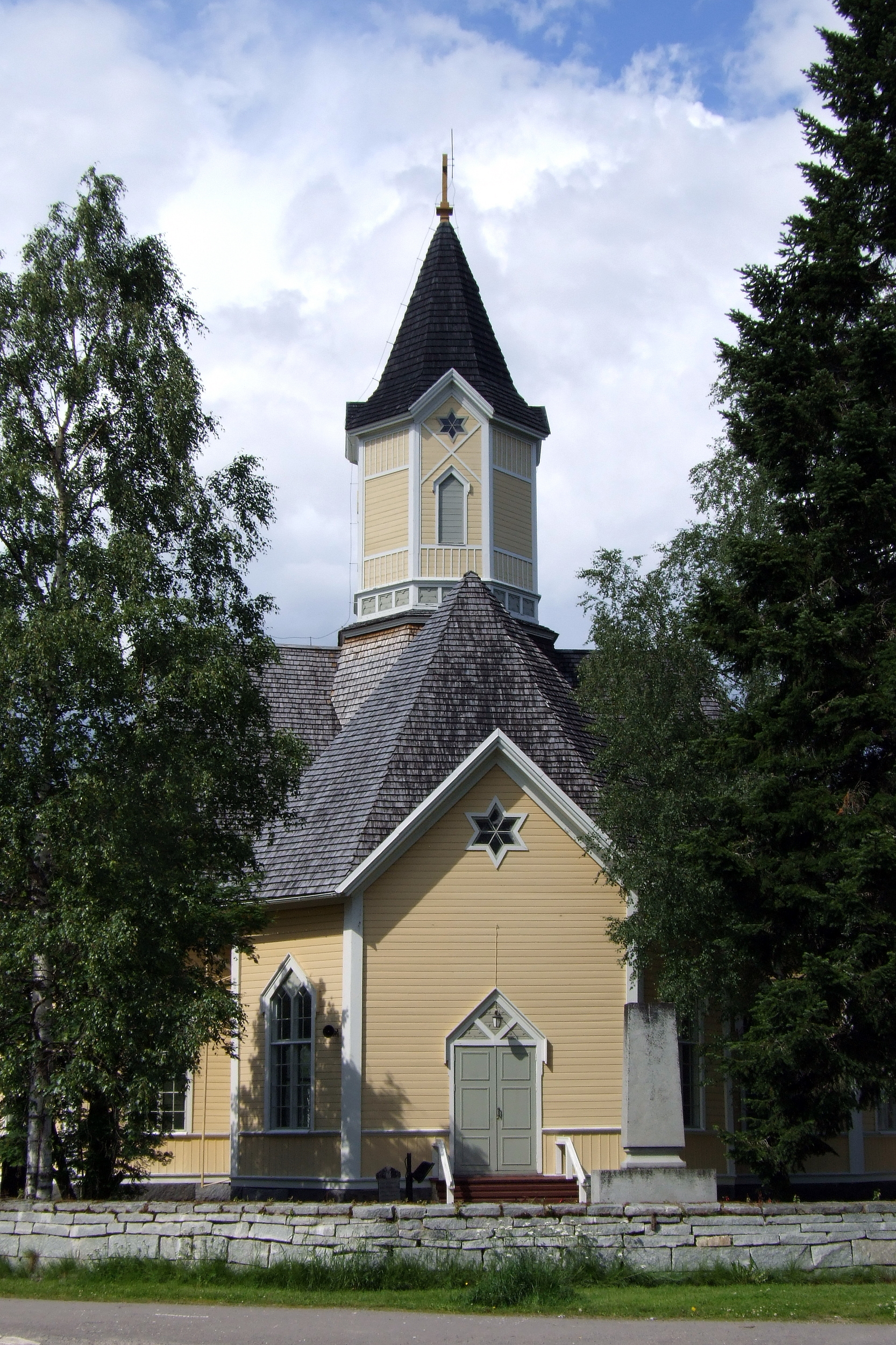 Piippola church in Piippola, Siikalatva, Finland. Completed in 1771. Designed by Simo Jylkkä.